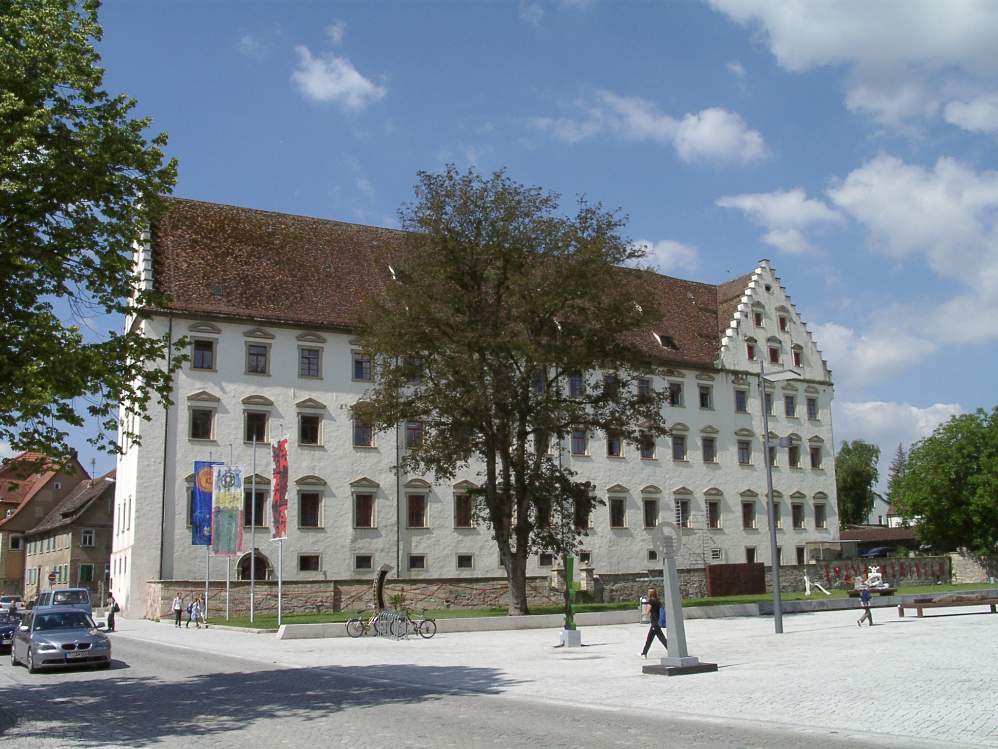 Episcopal mansion at the Eugen-Bolz-Square in Rottenburg am Neckar (District of Tübingen, State of Baden-Württemberg, Germany). The Palace was built in 1657/58 under the Barons of Hohenberg. The building with two wings and remarkable crow-stepped gables served the Jesuit order from 1691 to 1773 as course of lectures with a grammar school. Subsequently it was the domicile of an Austrian authority and from 1806 on it was the domicile of an authority of the Kingdom of Württemberg. When in 1821 the Diocese of Rottenburg was founded the palace became the episcopal administrative centre.